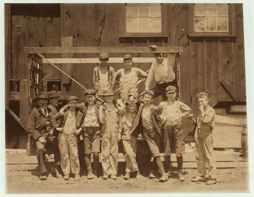 Noon hour. These boys are all working in the Illinois Glass Co. 1) Smallest boy, Frank (?) Dwyer, 1009 1/2 E. 6 St., says he has been working here 3 months. 2) Joe Dwyer (brother) Has been working here over 2 years. 3) Henry Maul, 513 Central Ave. 4) Frank Schenk, Lives with uncle, 611 Central Ave. 5) Emil Ohley, 1012 E. 6th Street. 6) Wm. Jarett, 825 E. 5th Street. 7) Fred Metz, 707 Bloomfield Street. In addition to their telling me they worked I saw them beginning work just before 1 P.M. Photo at 12:30. Alton, Ill. May 17, 1910. Location: Alton, Illinois / Photo by Lewis W. Hine.